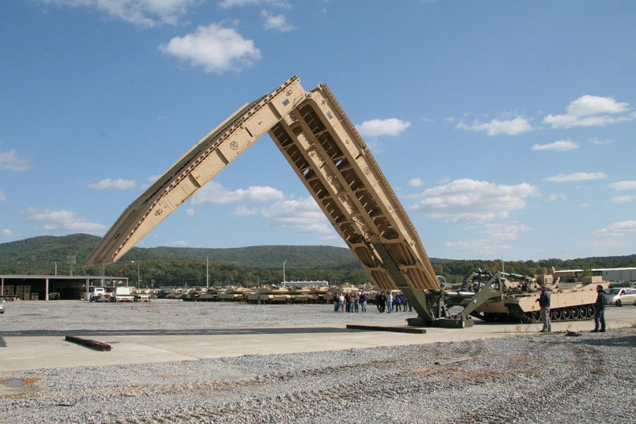 The Joint Assault Bridge is halfway extended for its onlookers at the 2006 prototype demonstration held at the Anniston Army Depot, Ala.-test track.